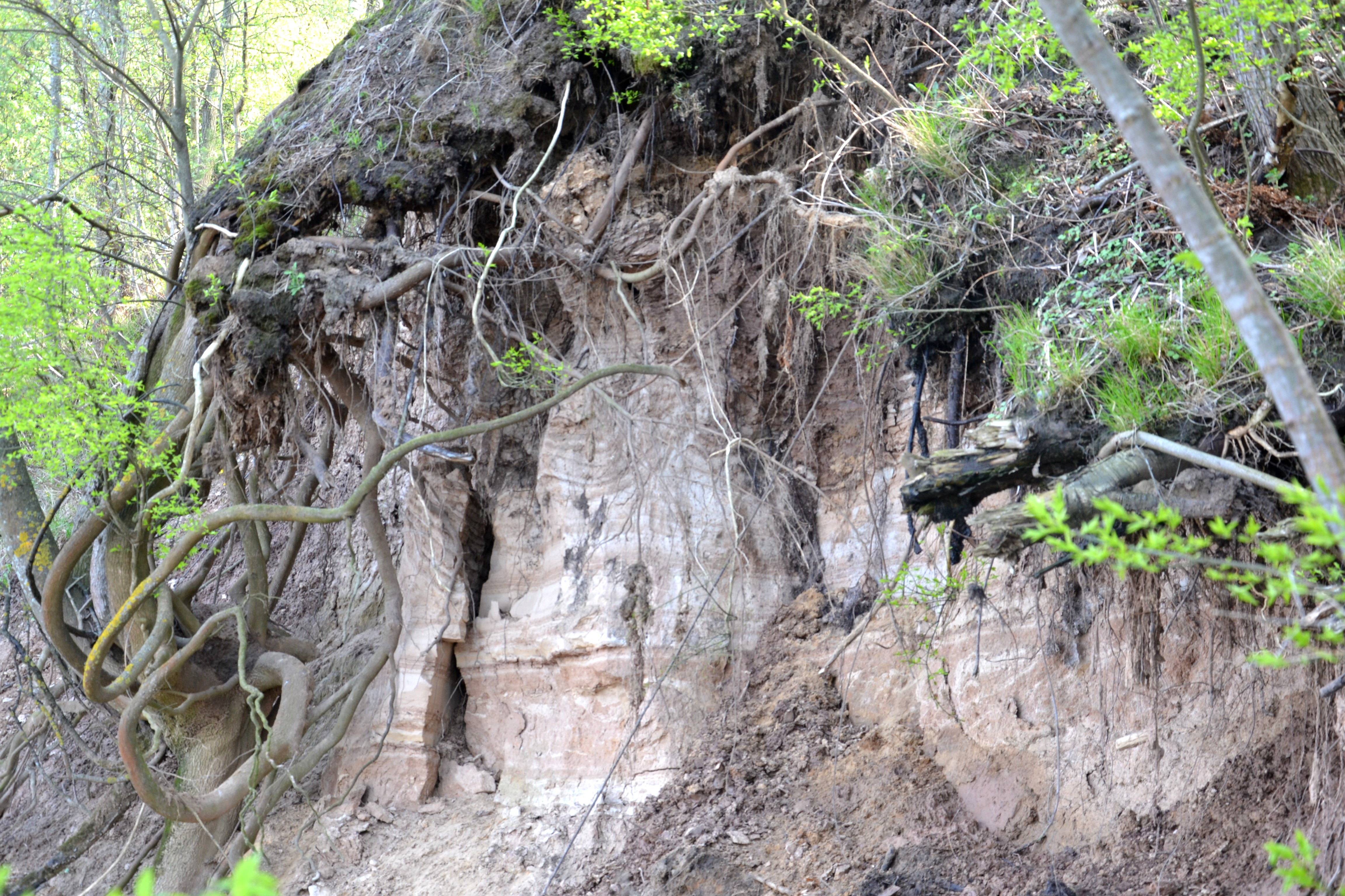 Outcrop of Ziegzdriai, Kaunas district, Lithuania